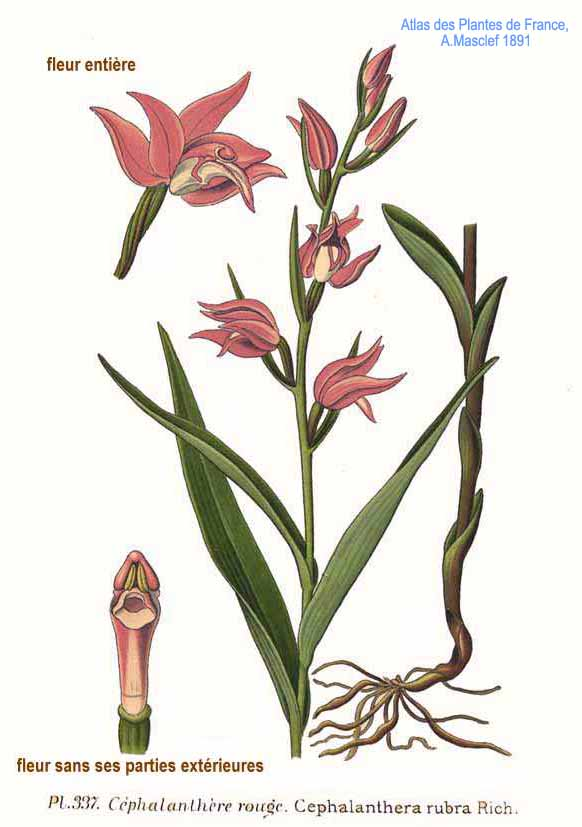 Cephalanthera rubra Rich.